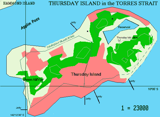 Map of Thursday Island in the Torres Strait